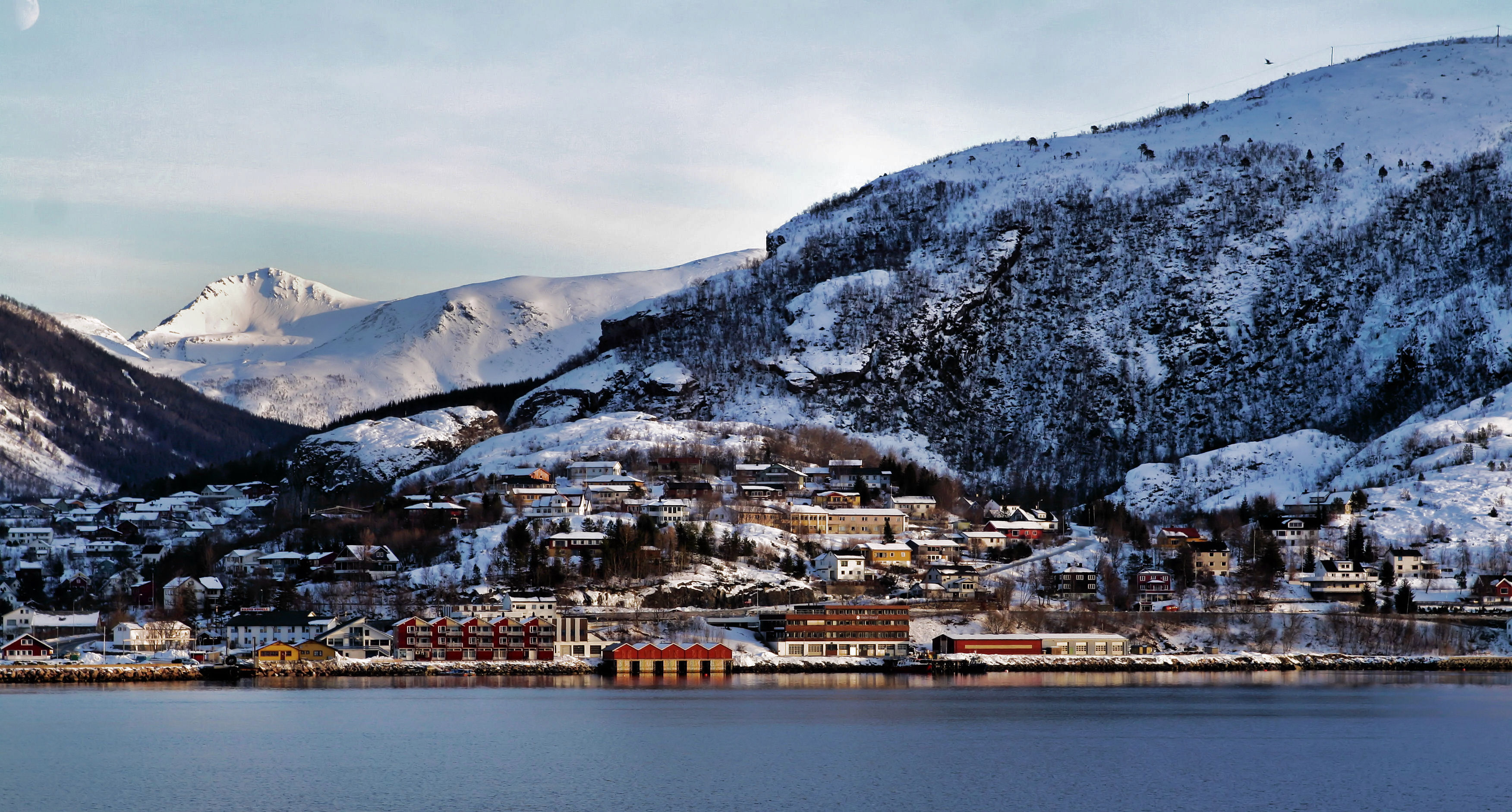 Ørnes as seen from Hurtigruten ship, winter 2006-2007.